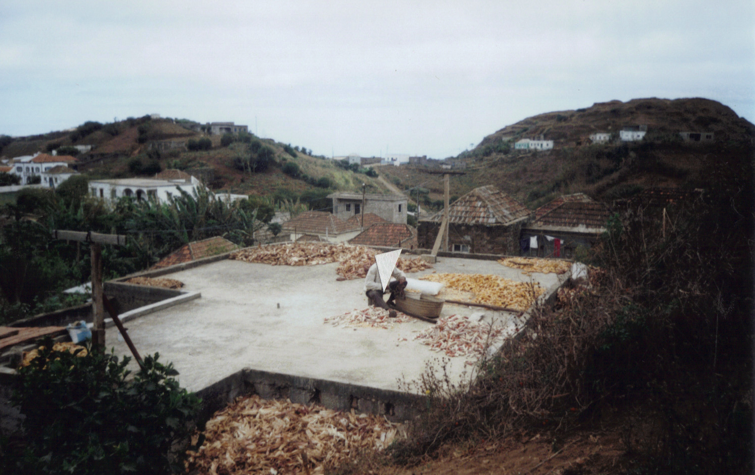 Harvesting corn, village of Cova Rodela, Ilha Brava, Cabo Verde.